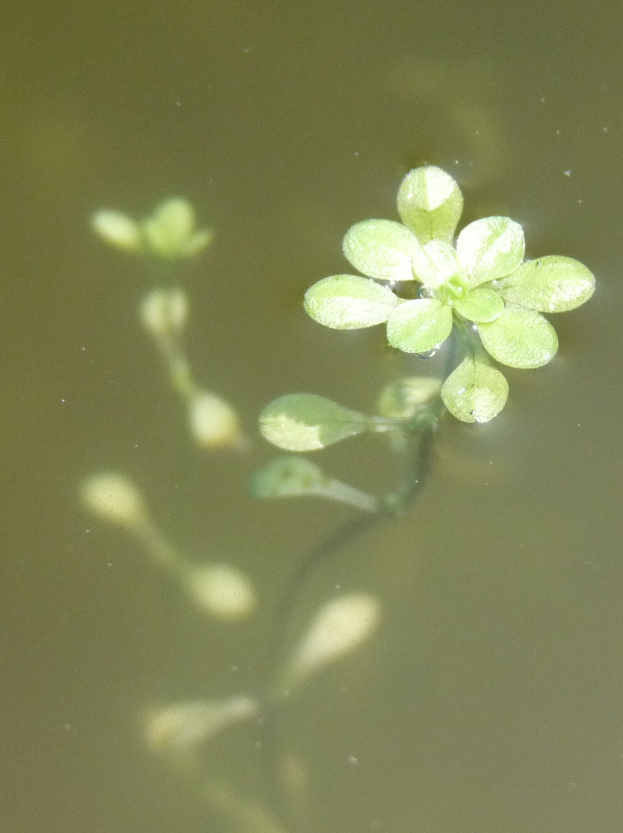 Callitriche japonica